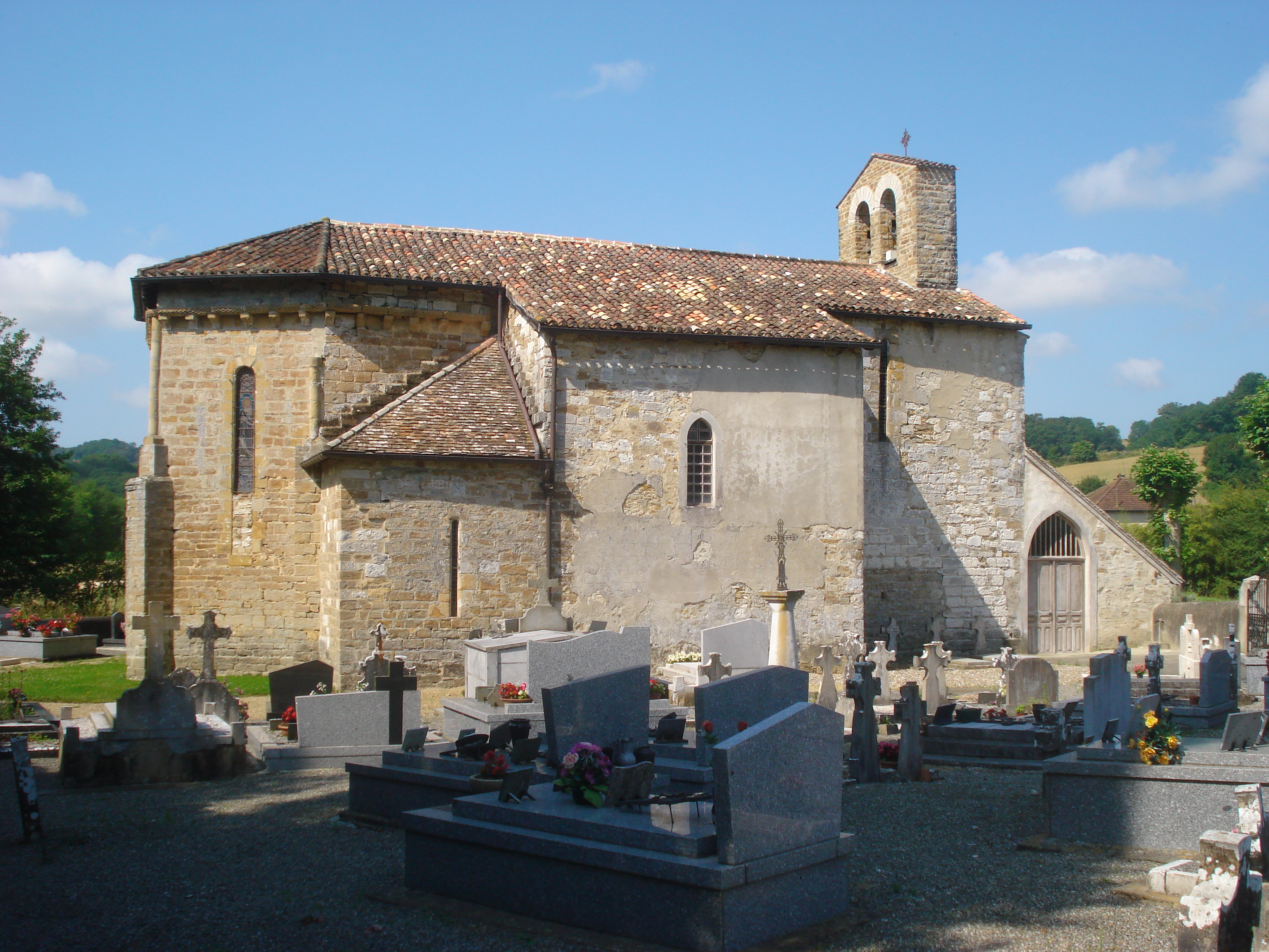 L'Hôpital-d'Orion (Pyr-Atl, Fr) church and cemetery.